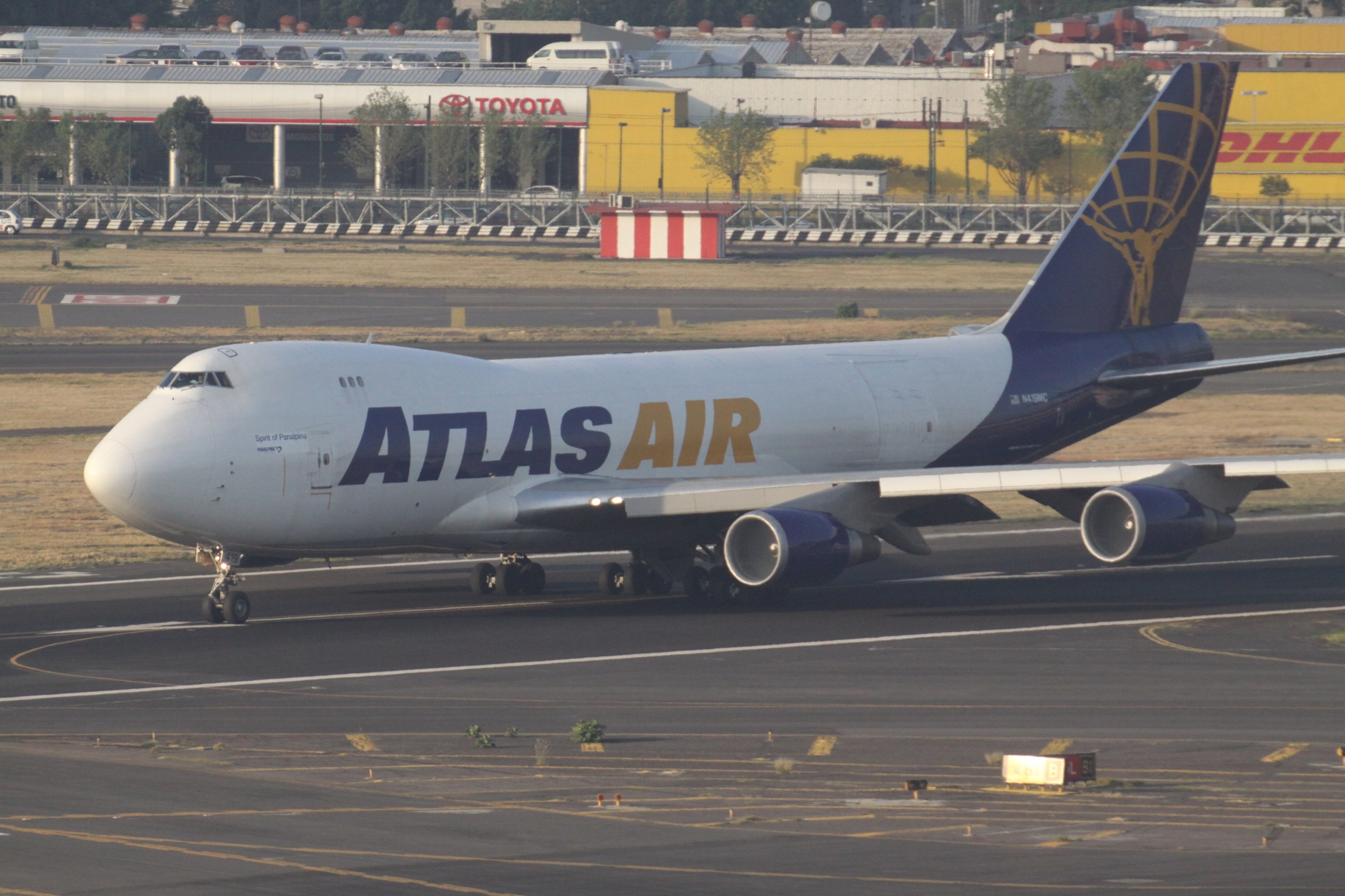 At Mexico City International Airport